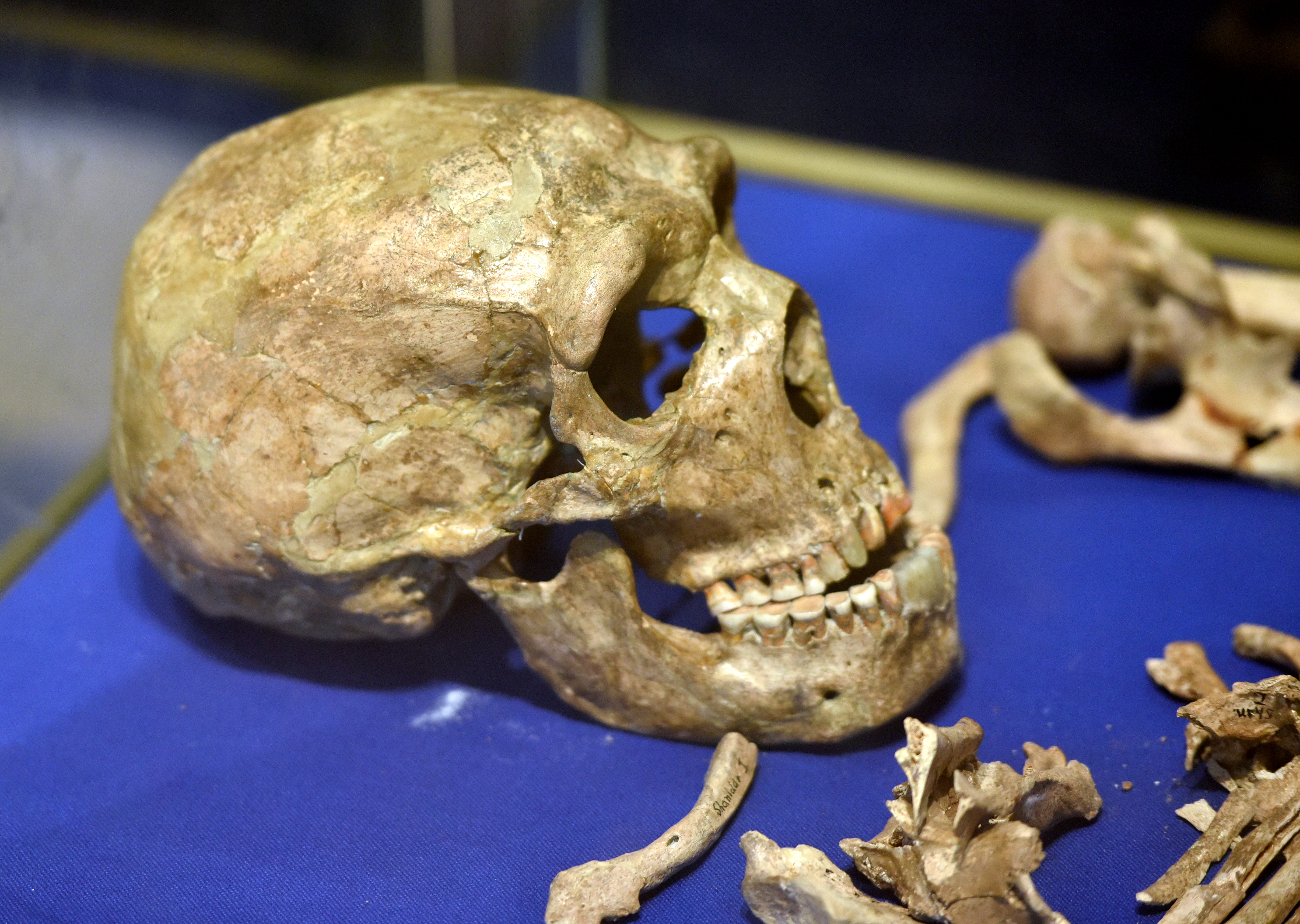 Shanidar I's skull and skeleton; on the ventral surface of the right clavicle, someone wrote "Shanidar I". From Shanidar Cave, Erbil, Iraq. Circa 60,000 to 45,00o BCE. On display at the Pre-History Gallery of the Iraq Museum in Baghdad, Iraq.